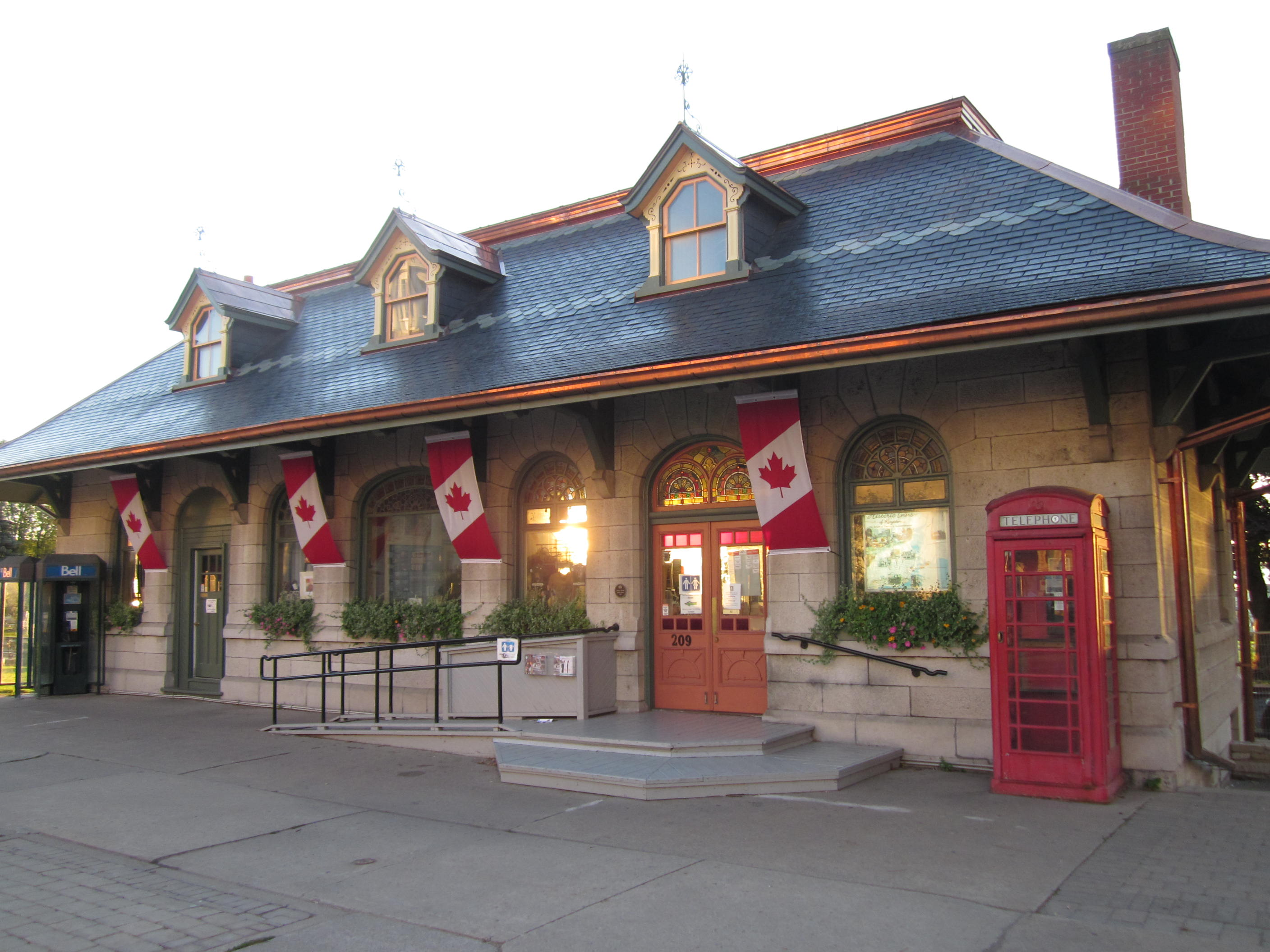 The former train station (Kingston and Pembroke Railway Station) in downtown Kingston, Ontario, Canada, now used as a tourist information office.